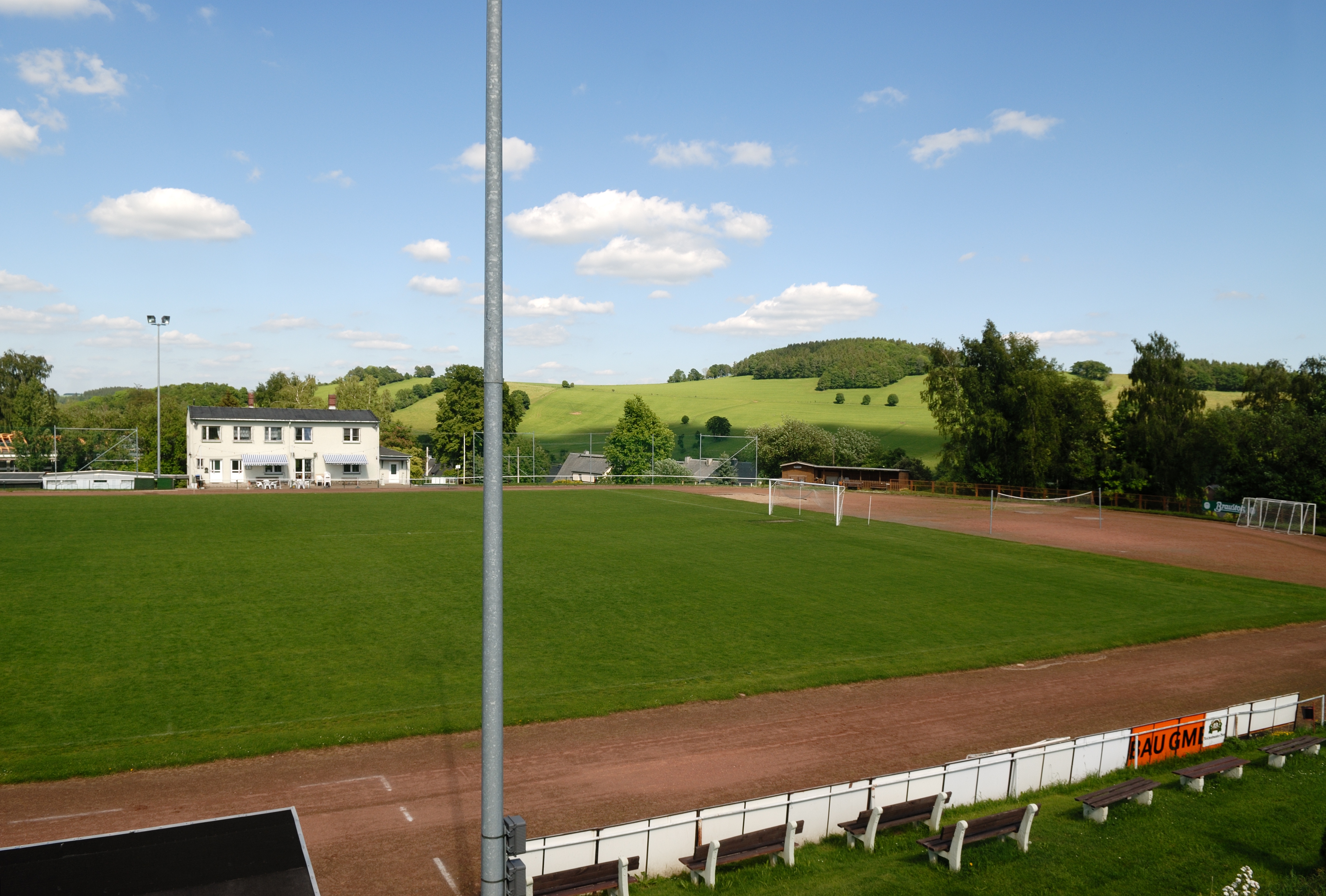 This image shows the sports field in Drebach, Saxony, Germany.